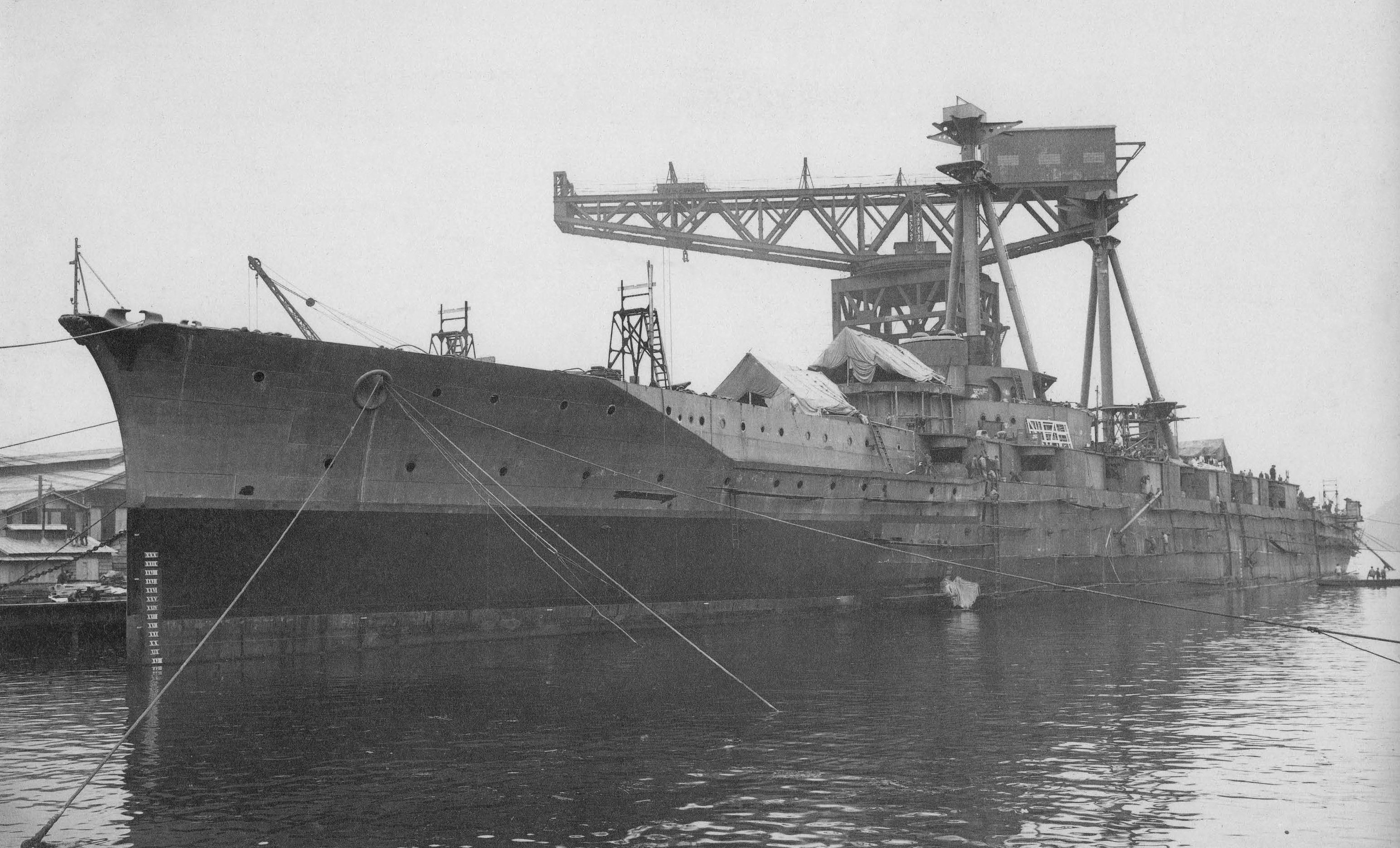 Imperial Japanese Navy battlecruiser Hiei fitting out at Yokosuka, Japan.